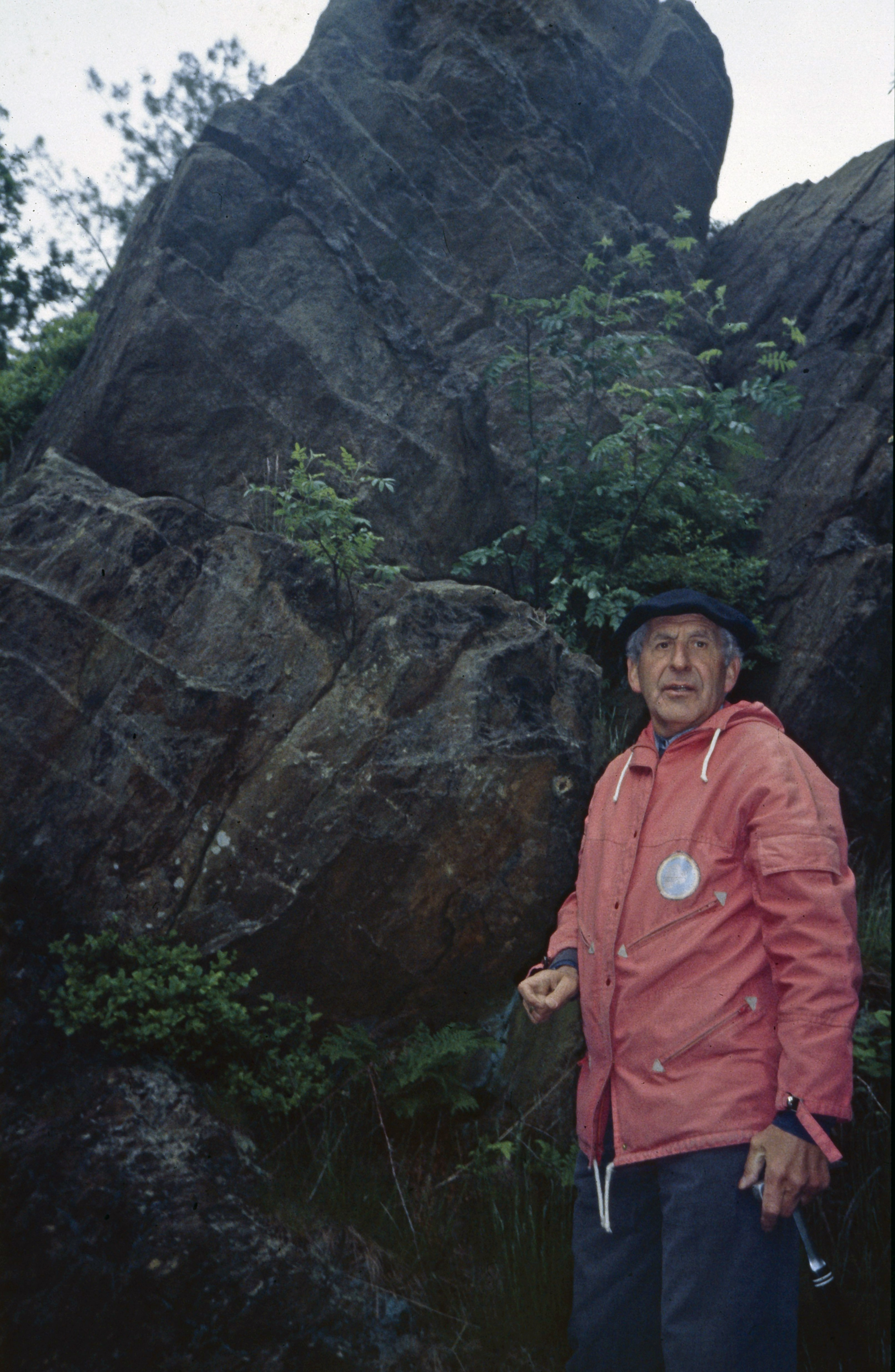 German geologist Gerhard Spaeth at an outcrop near Lammersdorf/Germany